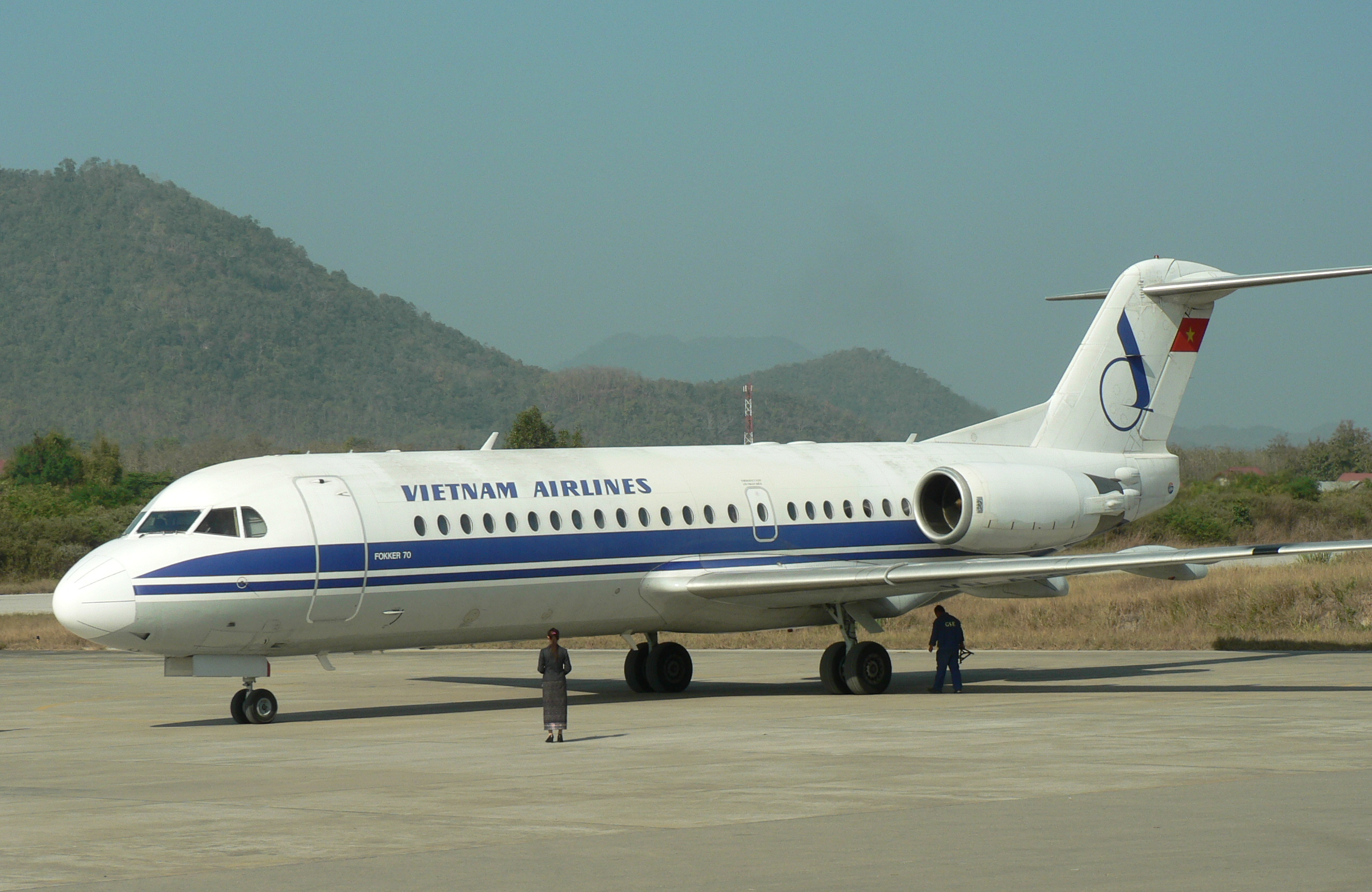 Vietnam Airlines Fokker 70 aircraft at Luang Prabang airport